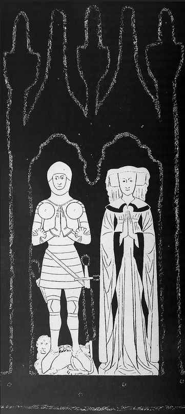 St Mary's church, Bocking, Essex, Monumental brass to John Doreward (died 1420) Speaker of the House of Commons and his third wife Isabella Baynard 1426. Inscribed in Latin: Exoretur mia(?) Dei p(ro) a(n)i(m)a(e) Joh(ann)is Doreward Armig(e)r(i) filii Will(ielm)i Doreward qui obi(i)t xii die mensis Novem(bris) An(no) D(omi)ni MCCCCXX et pro a(n)i(m)a Isabell(a)e ux(or)is eius quor(um) a(n)i(m)ab(us)z p(ro)pi(t)et(ur) Deus ("Pray to God for the soul of John Doreward, Esquire, son of William Doreward who died on the 12 day of November AD 1420 and for the soul of Isabella his wife on the sould of whom may God look with favour"